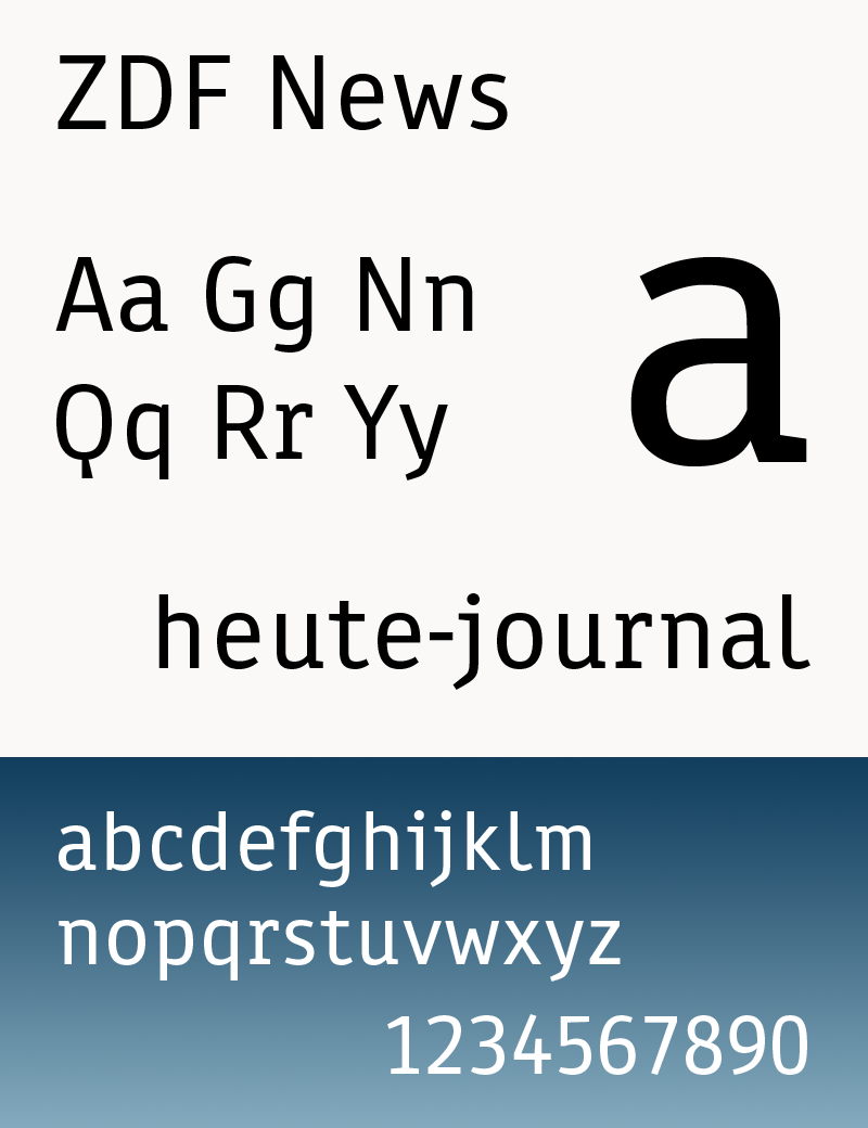 Sample of "ZDFnewsScreen" (typeface made for ZDF's news programme)